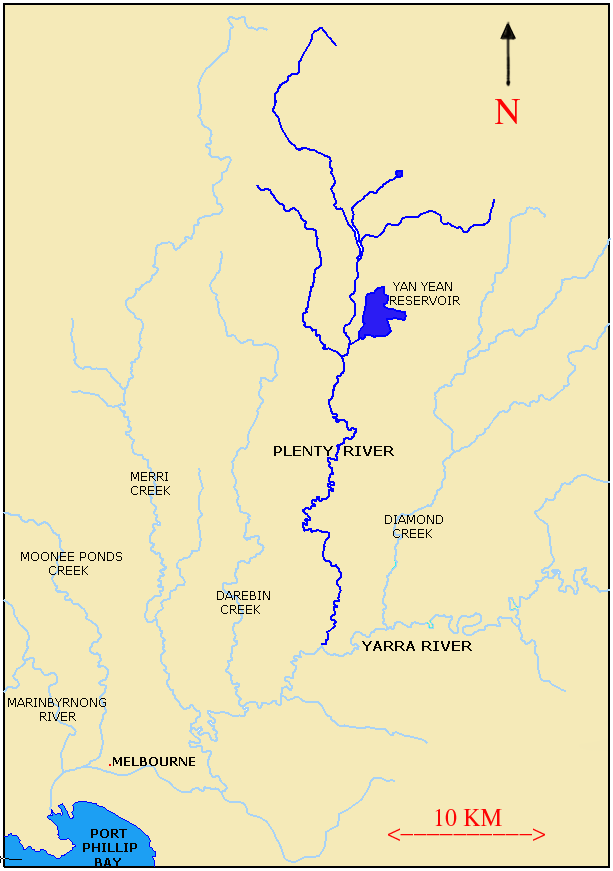 Map of Plenty River. Made by author. All rights foregone